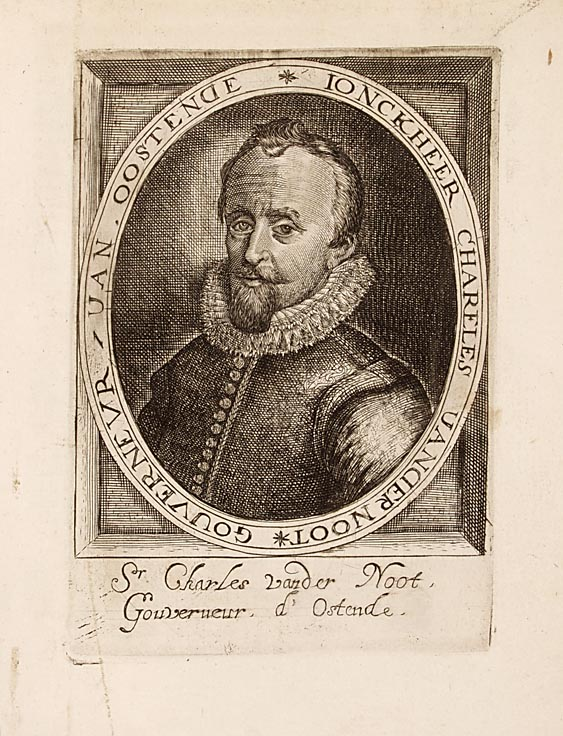 Portret of Karel / Charles van der Noot, Governor of Ostend in 1601 and former captain of the guards of Maurice of Nassau.